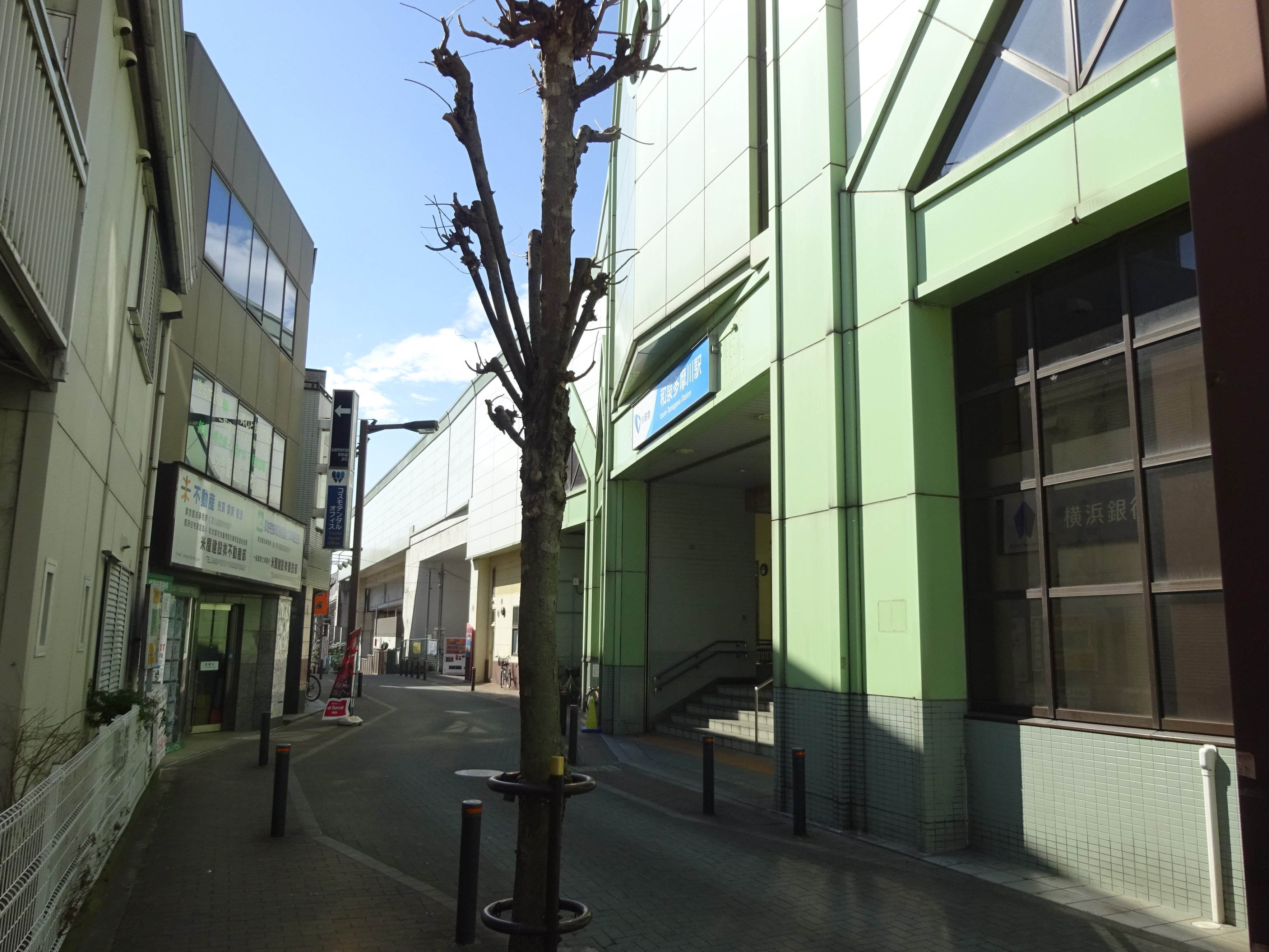 South Entrance of Izumi-Tamagawa Station